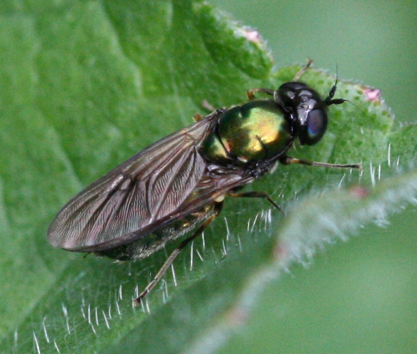 Healaugh, Yorkshire, England. SE491469